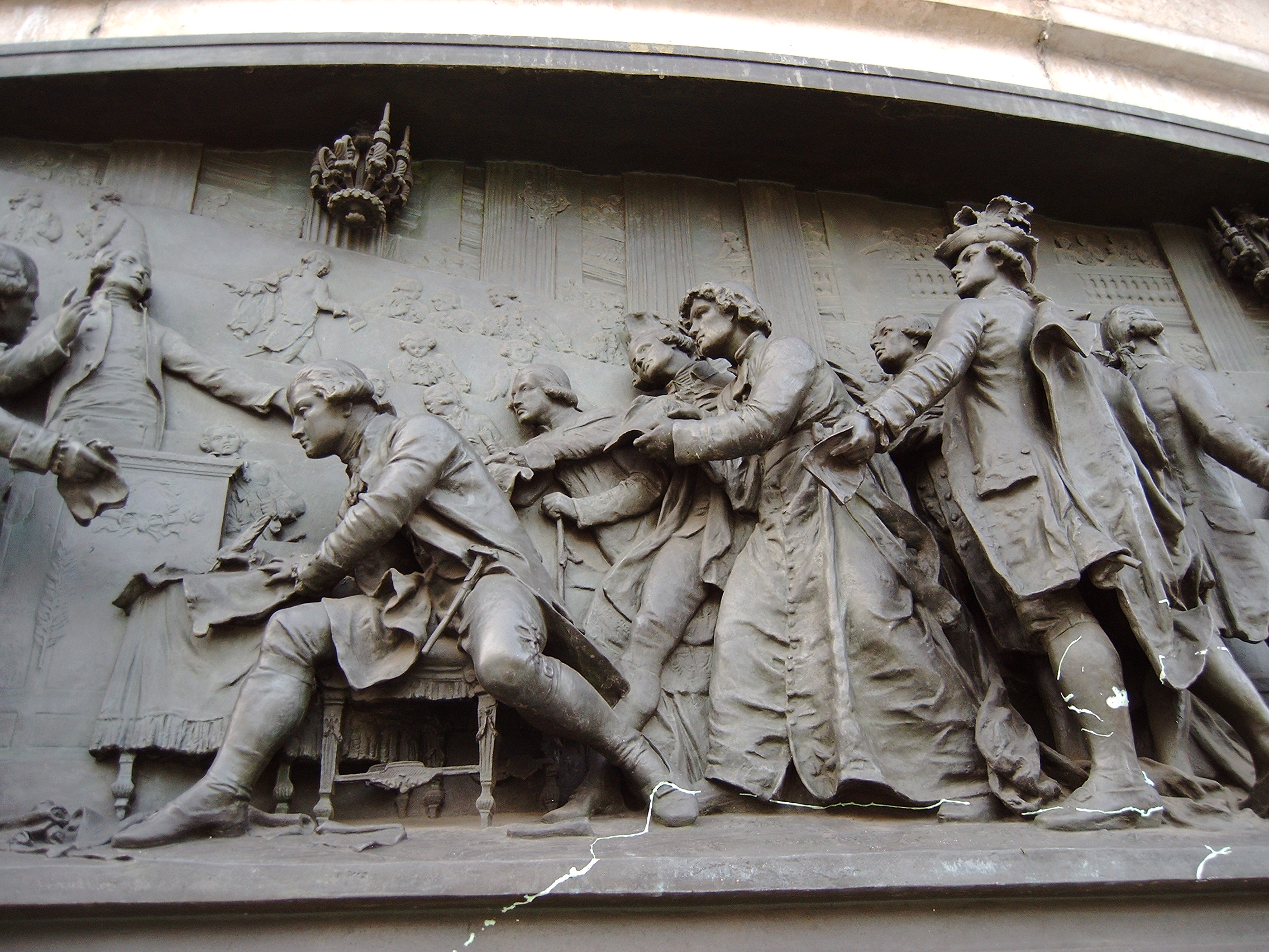 Night of August 4th, abolition of feudality and fiscal privileges